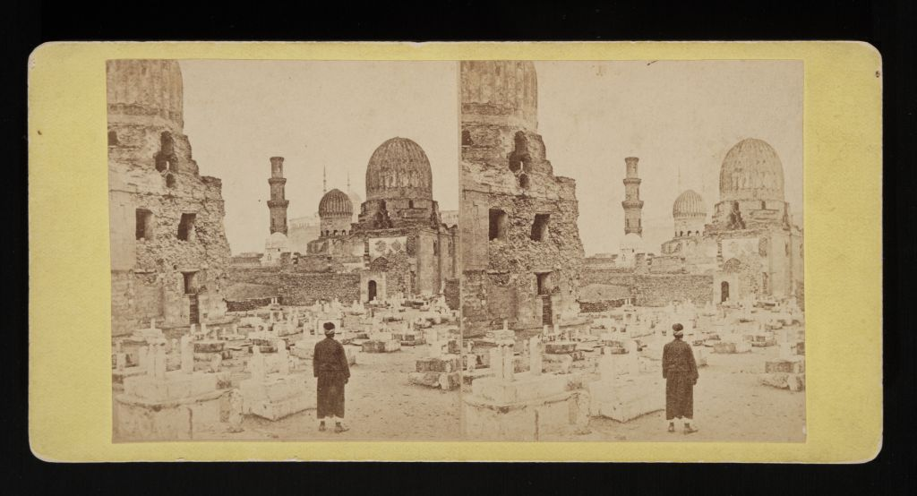 Man at tombs